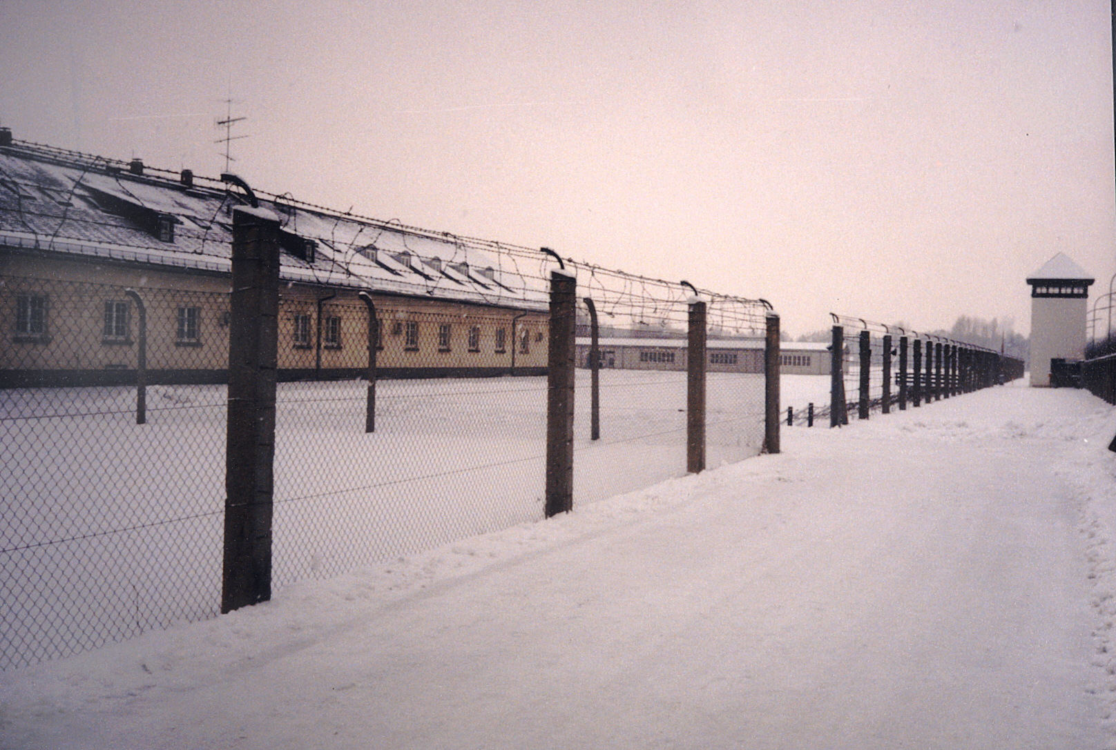 KL Dachau Blocks, Fence & Sentinel Post